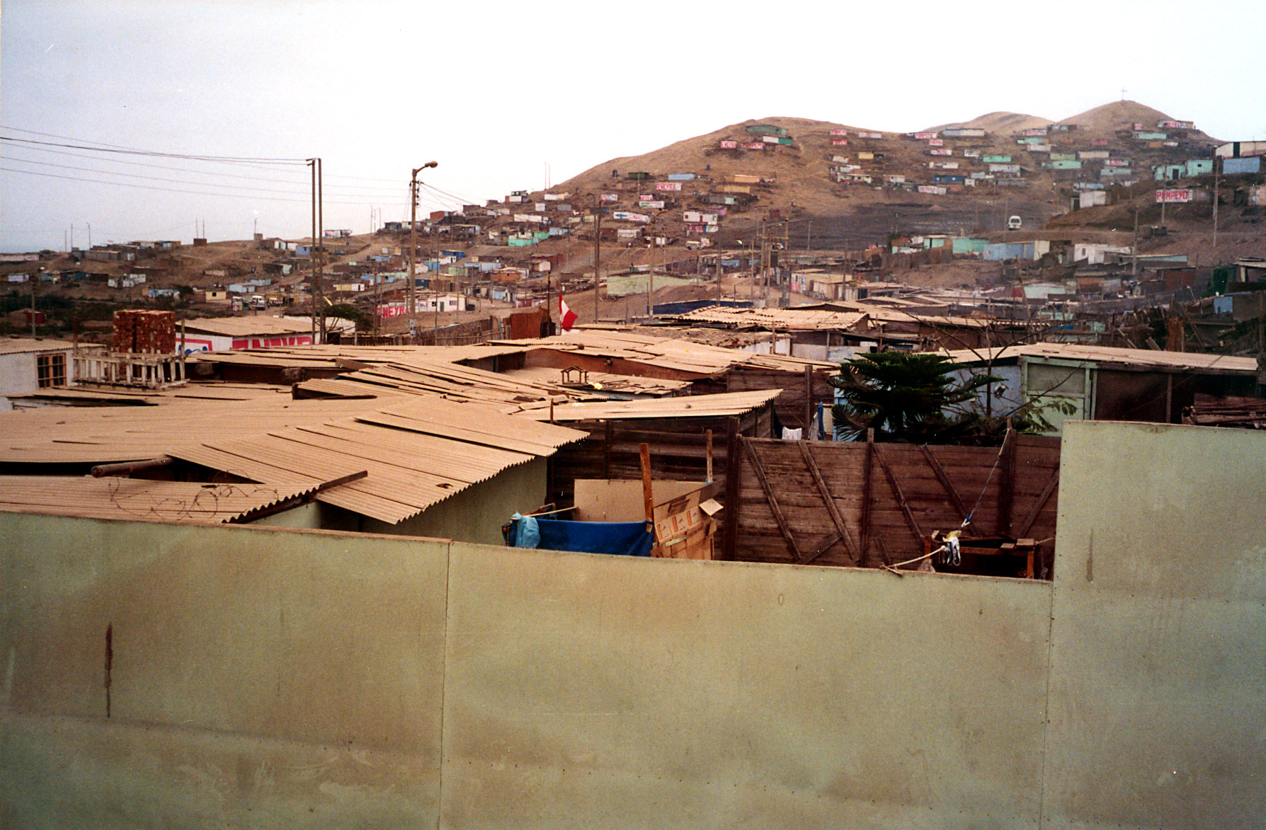 Pueblo Joven, picture was taken in southern part of Lima, in 1997.